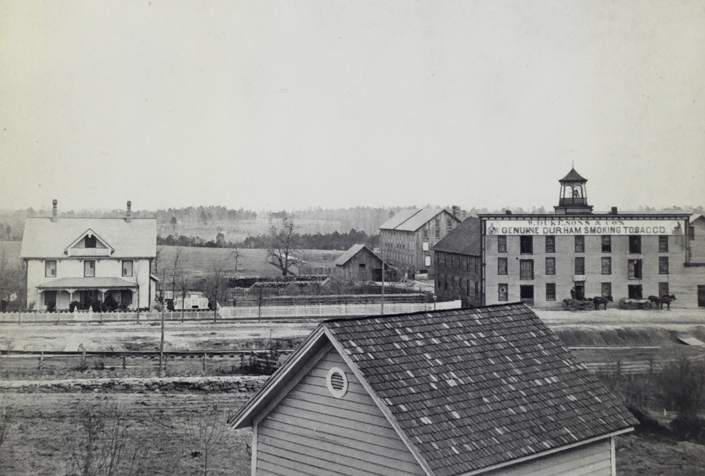 View of the first Duke tobacco factory and surrounding buildings, Durham, North Carolina, 1883. The view shows the factory itself, surrounding warehouse buildings, the white Duke house, surrounding countryside and the railroad tracks bisecting the scene. Image courtesy of Durham County Public Library Photographic Archives.